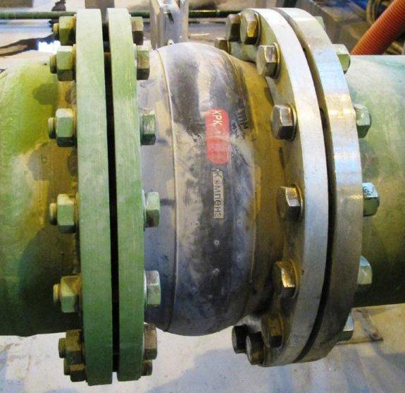 Rubber Expansion Joint